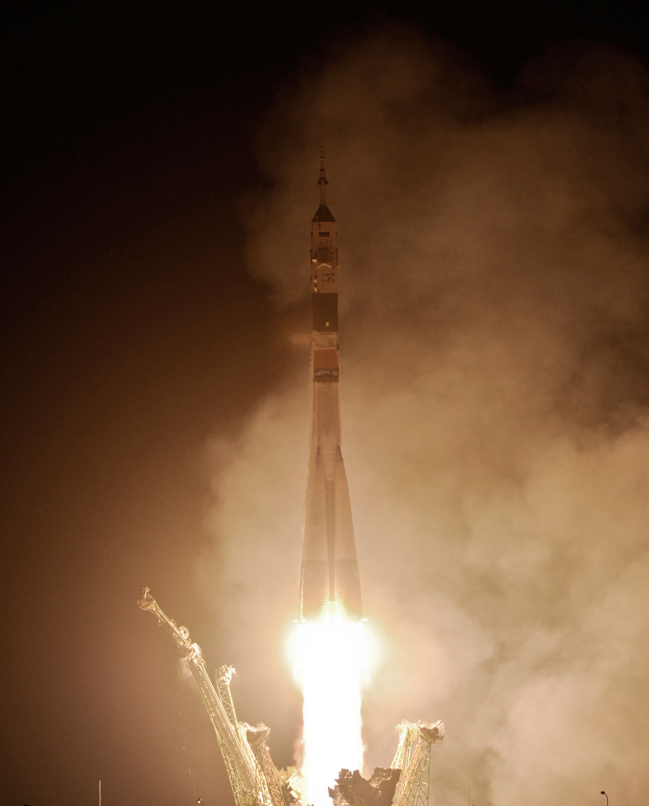 The Soyuz TMA-20 rocket launches from the Baikonur Cosmodrome in Kazakhstan at 2:09 p.m. (EST) on Dec. 15, 2010 (1:09 a.m., Dec. 16 Kazakhstan time) carrying Russian cosmonaut Dmitry Kondratyev, Expedition 26 Soyuz commander and flight engineer; along with NASA astronaut Catherine (Cady) Coleman and European Space Agency astronaut Paolo Nespoli, both flight engineers, to the International Space Station.